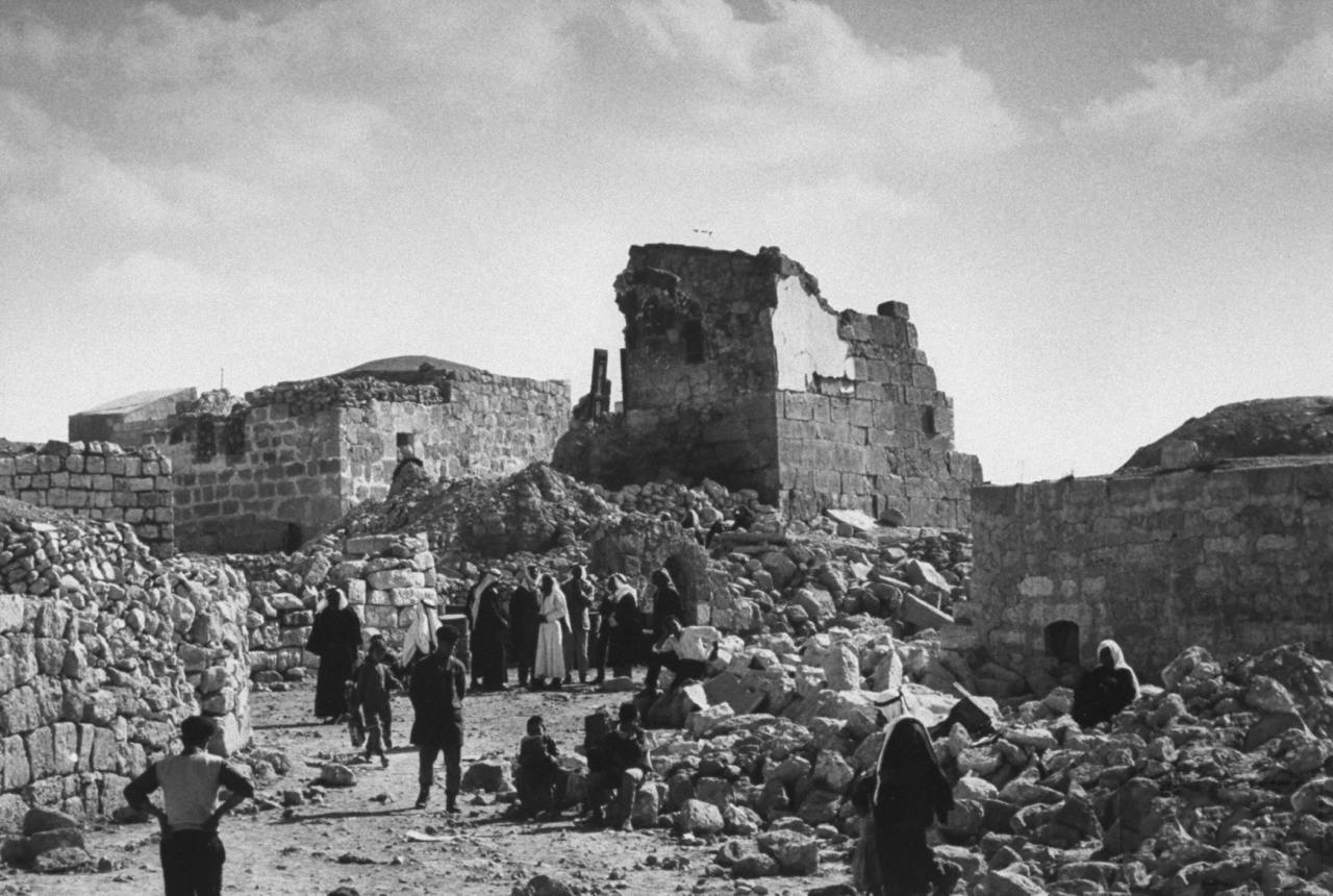 Samu Incident